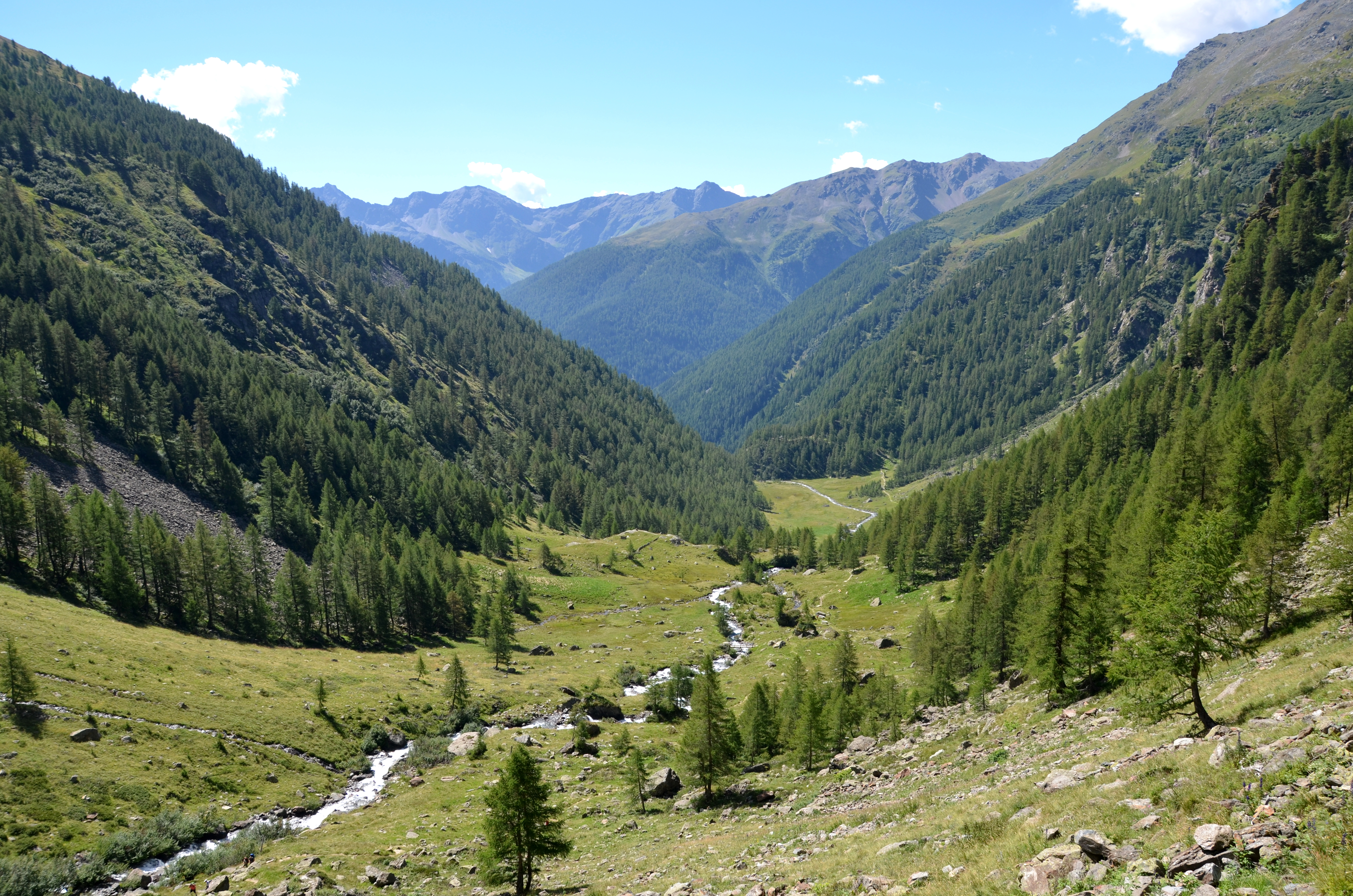 Val di Rabbi